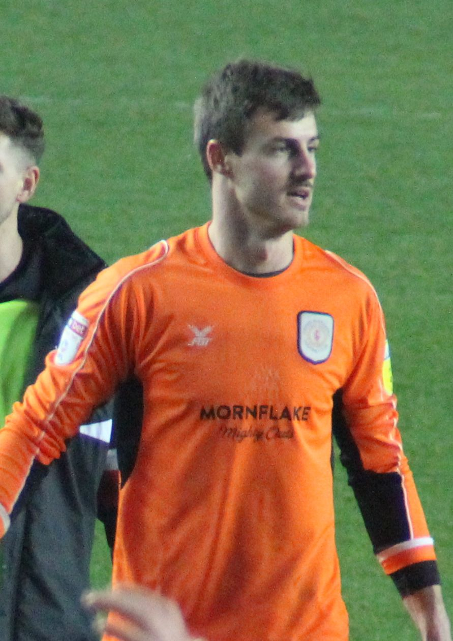 English professional footballer, photographed at Milton Keynes on 19 January 2019.